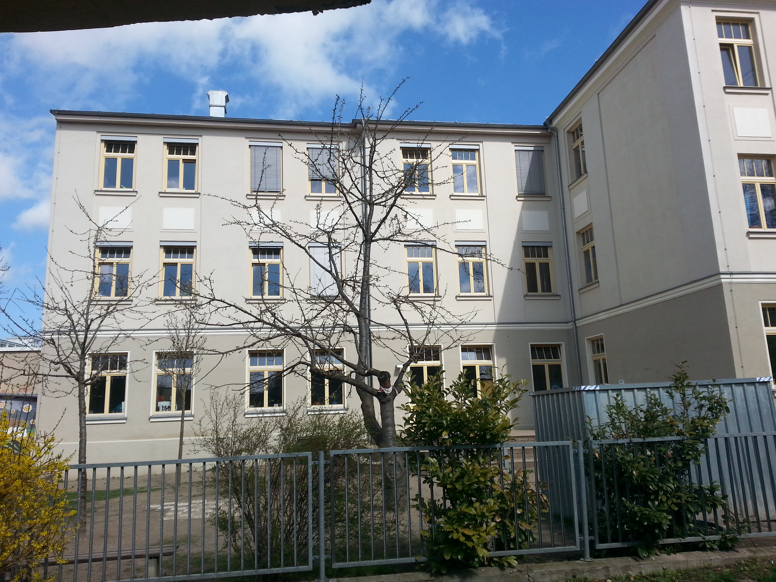 Ansicht von Süden